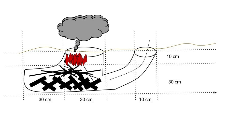 Dakota fire pit